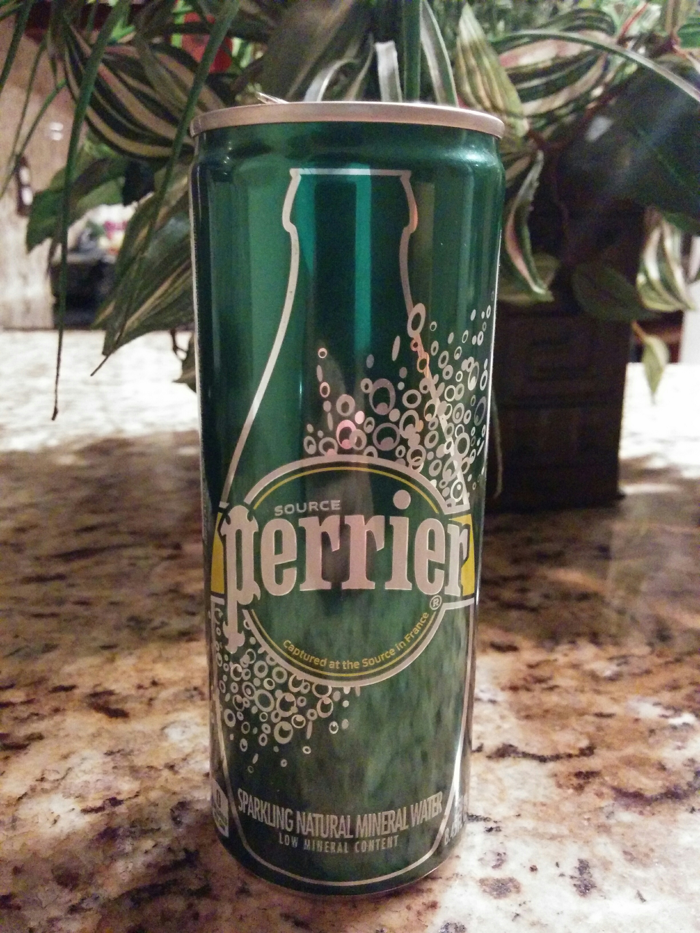 can of parrier sparkling water (front(